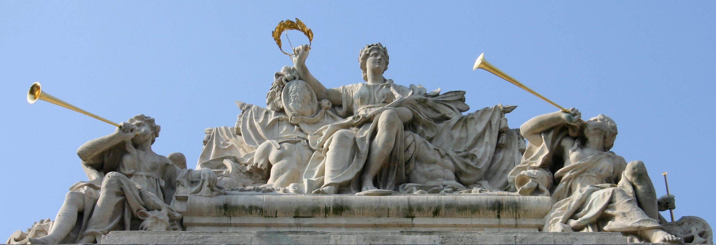 Top of Paris' Gate in the City of Lille. The Paris' Gate was built between 1685 and 1692 to celebrate Louis 14's glory after Lille became french in 1667.